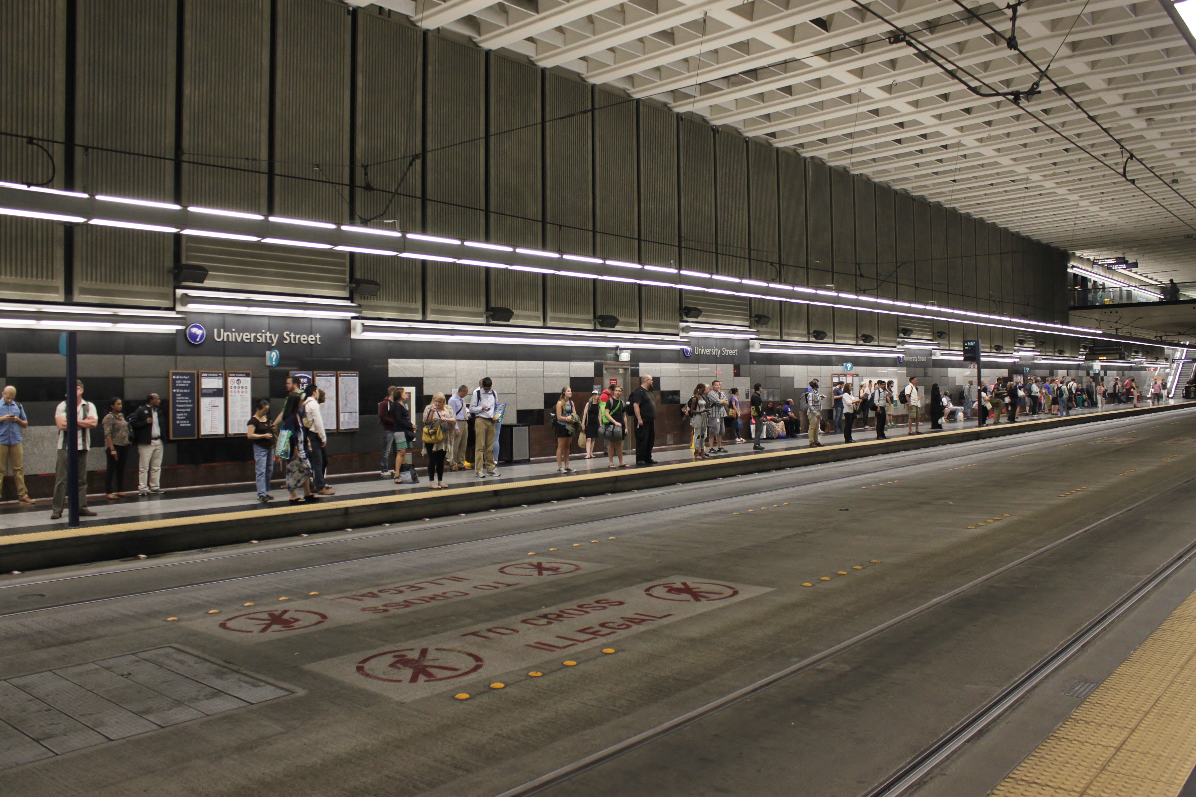 The platform level at University Street station in downtown Seattle, shared between light rail and buses.